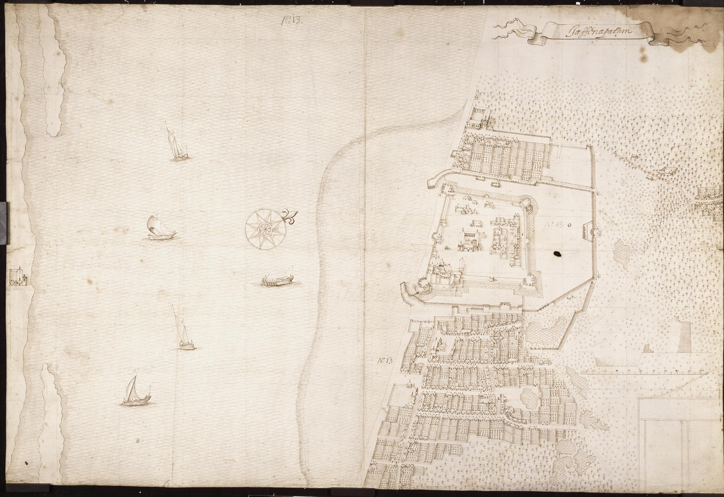 Title in the Leupe catalogue (NA): Plattegrond van Jafnapatnam. Copper etching, not coloured in. Corresponds almost entirely with the illustration rendered in Valentijn V, page 30. The chart incorporates No. 13 three times. To the right the scale, with above it a cross section. On the left the sea, to the right the city of Jaffna and surrounding landscape.